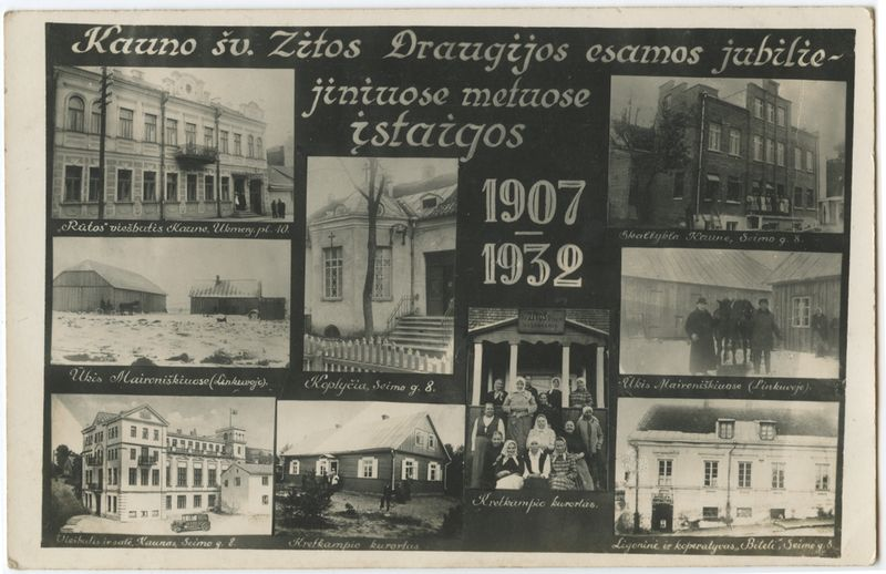 Postcard for the 25th anniversary of the Society of Saint Zita in Lithuania. It depicts main institutions operated by the society in 1932 in and near Kaunas. From left then bottom: Hotel Rūta in Kaunas, farm in Maironiškiai (Linkuva), headquarters in Kaunas, chapel in Kaunas, summer vacation home in Kretkampis (two images), laundry in Kaunas, farm in Maironiškiai (Linkuva), hospital and cooperative Bitelė in Kaunas.